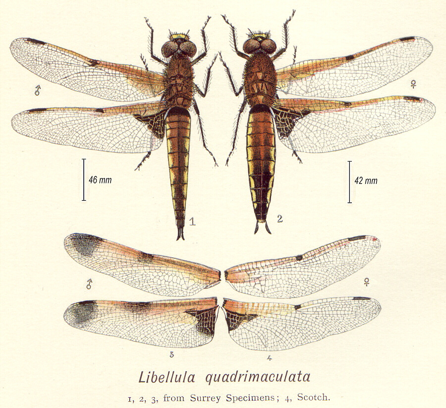 Drawing of Libellula quadrimaculata